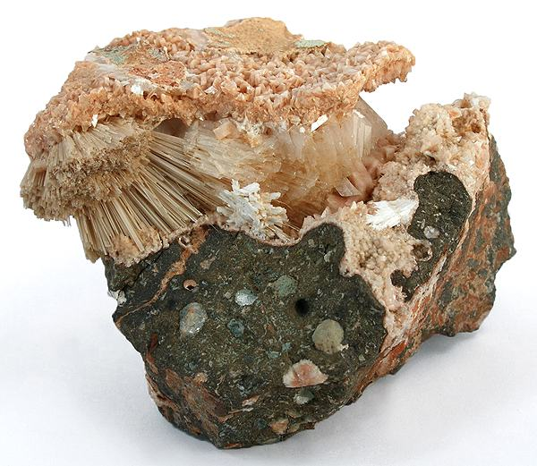 Stilbite-Ca, Natrolite, Laumontite, Heulandite-Ca Locality: Long Point Beach, Kings County, Nova Scotia, Canada (Locality at ) Size: 8.7 x 8.7 x 5.8 cm. A rich combination specimen of 4 zeolite species from a classic, now hard-to-access zeolite locale in Canada. The radiating natrolite crystals are protected in a pocket with associated stilbite. The matrix around and above the pocket is lined with small, stable, pink-colored laumontite crystals (this is an unusual color). Heulandite, rare for the locale, is also present as a crystal cluster on the backside. Ex. Harold Urish Collection.